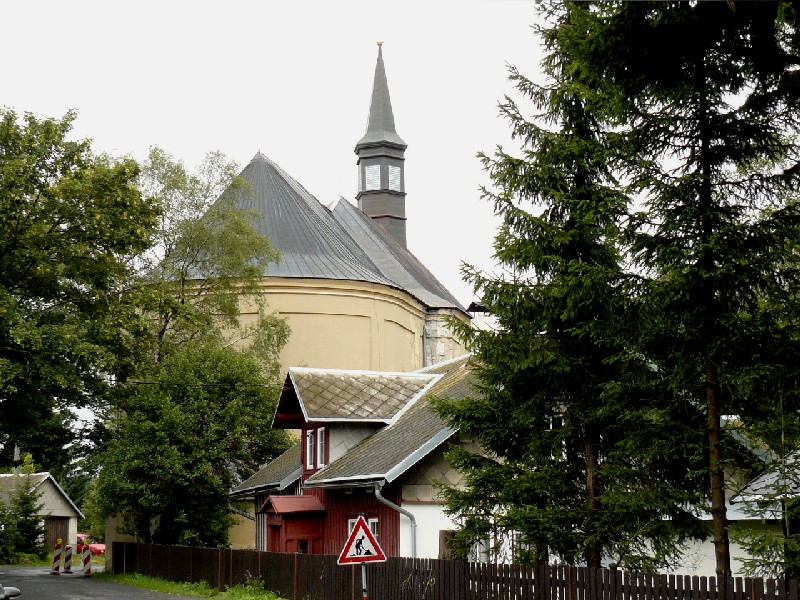 This photograph was taken within the scope of the second year of the 'Czech Municipalities Photographs' grant.